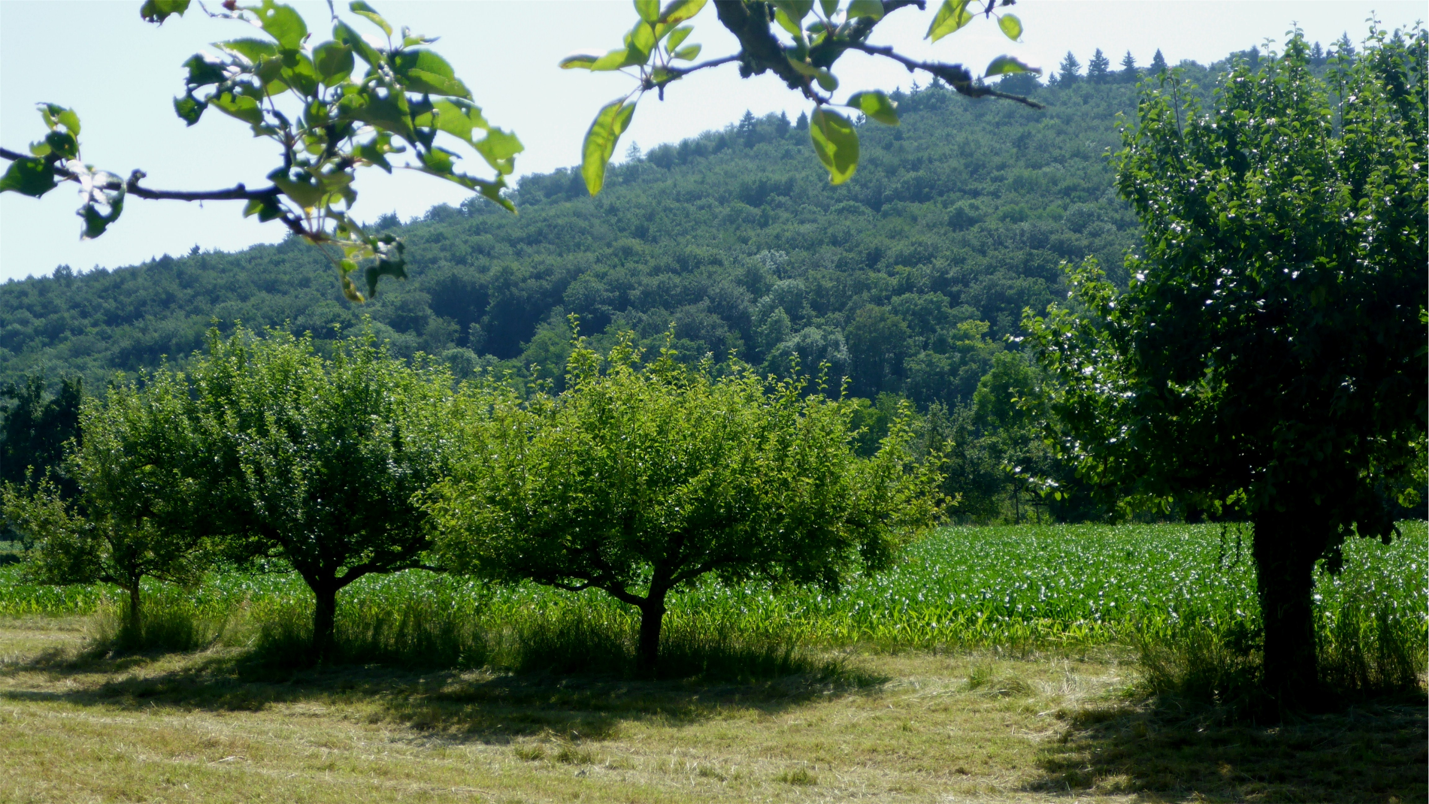 Landschaftsschutzgebiet „Grötzinger Bergwald-Knittelberg“ is a Protected landscape area in Baden-Württemberg, Germany.